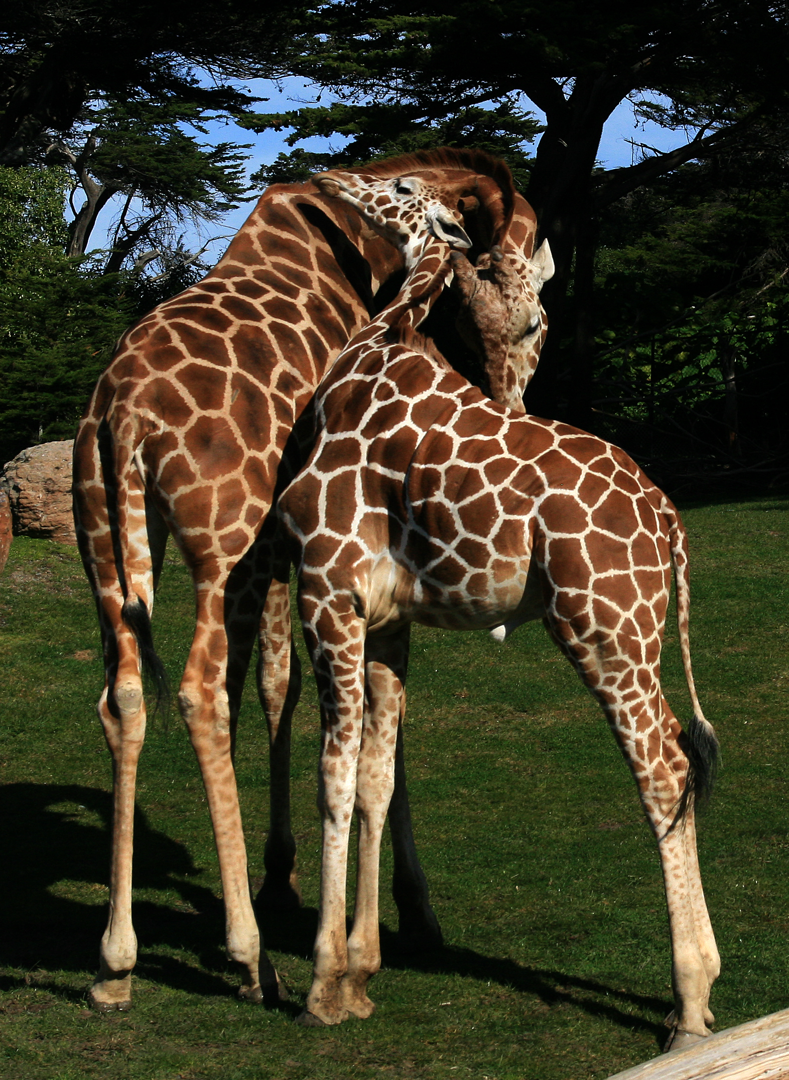 Two male giraffes (Giraffa camelopardalis reticulata) are necking in San Francisco Zoo.